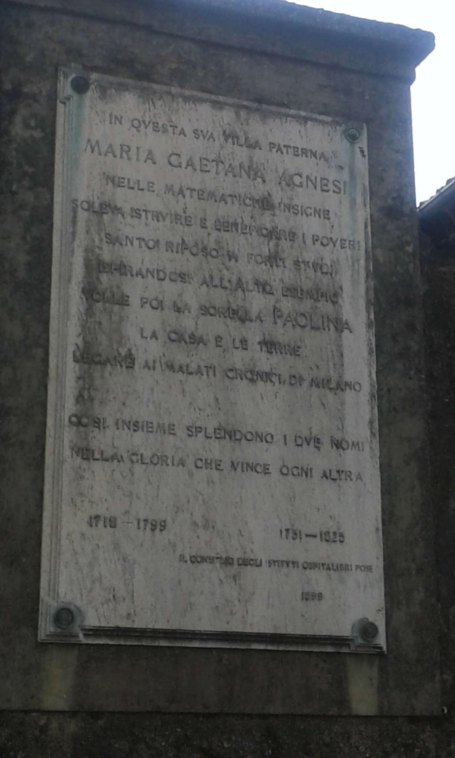 Inscription in a wall of her paternal house dedicated to the memory of mathematician Maria Gaetana Agnesi (1718-1799) in Varedo (MB), Italy